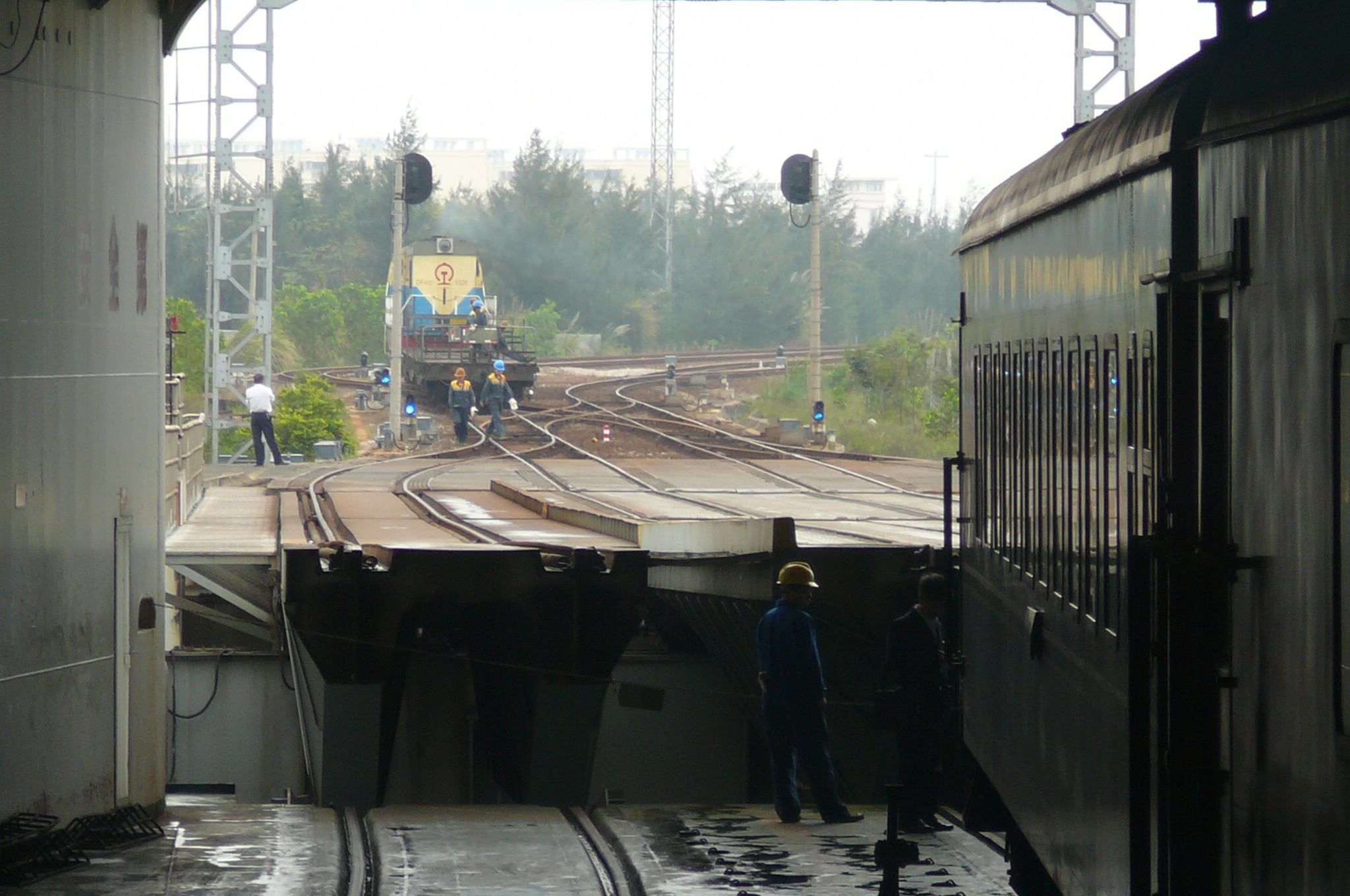 Qiongzhou Strait Train Ferry Port ,Hoihow